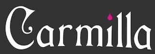 Series title card